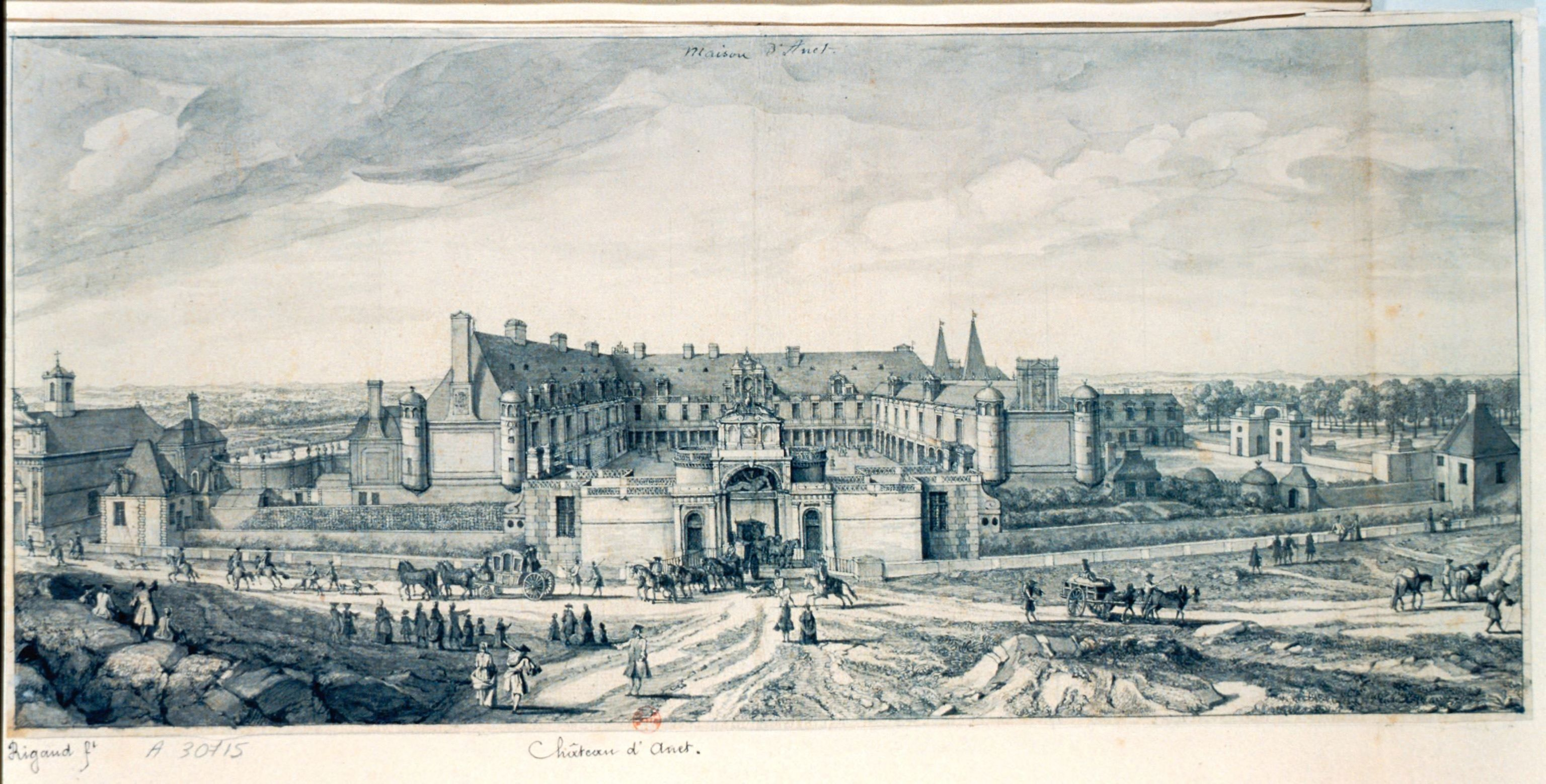 General perspective view of the Château d'Anet in France